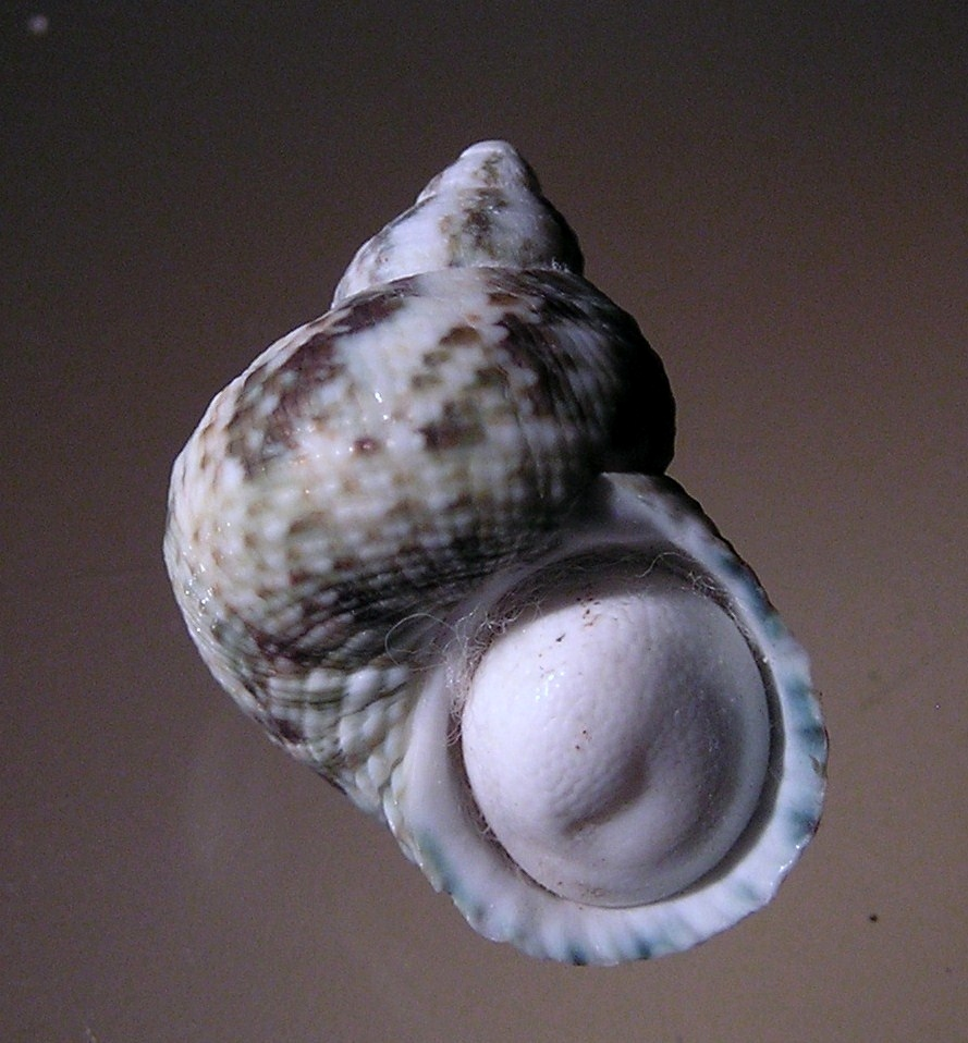 Turbo tuberculosus Quoy & Gaimard, 1834 (syn.: Turbo necnivosus, Iredale), a sea snail from the family Turbinidae; Australia